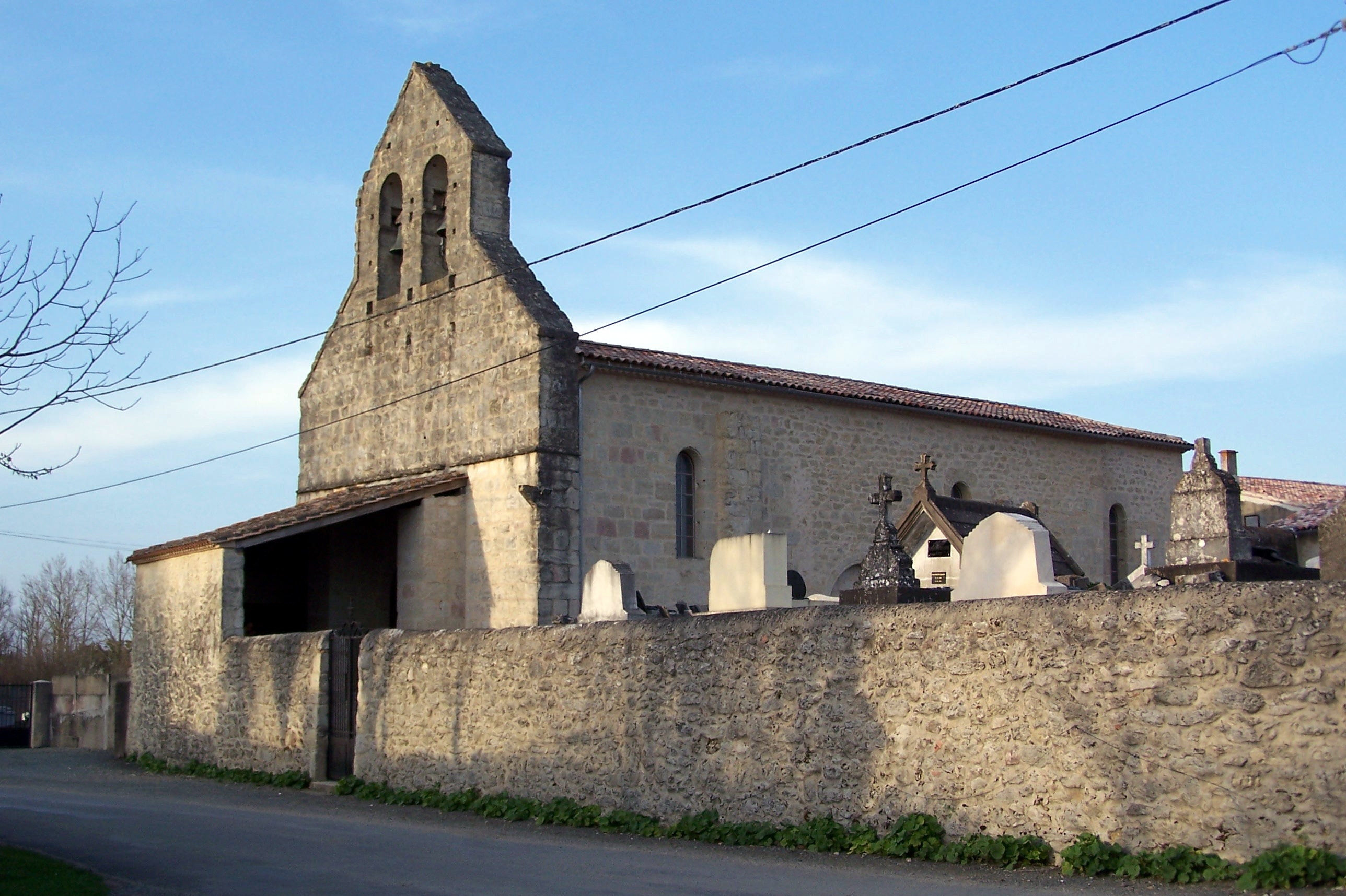 Church Saint-Martin of Cours-de-Monségur (Gironde, France)